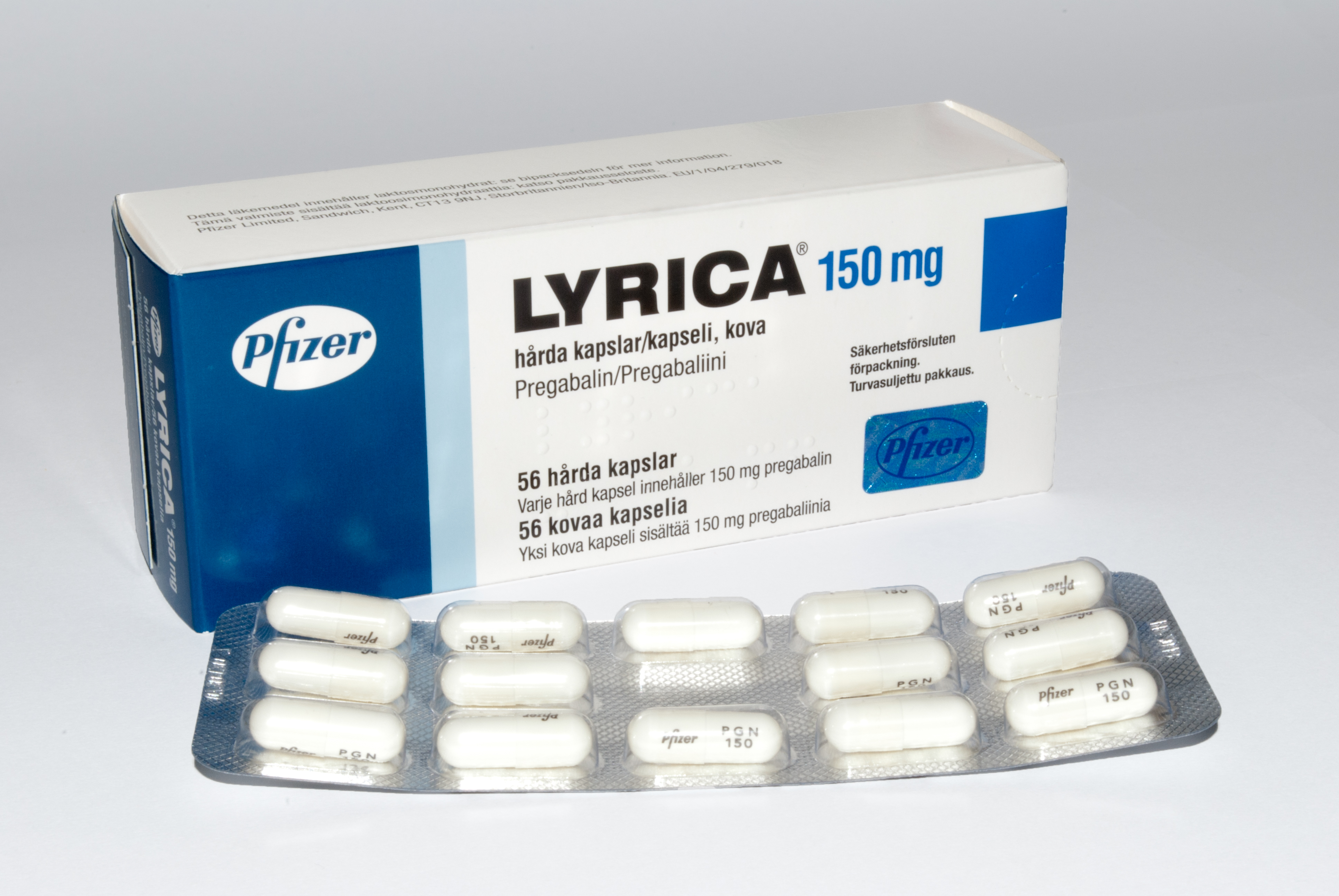 A package of 150mg Lyrica in Finland.